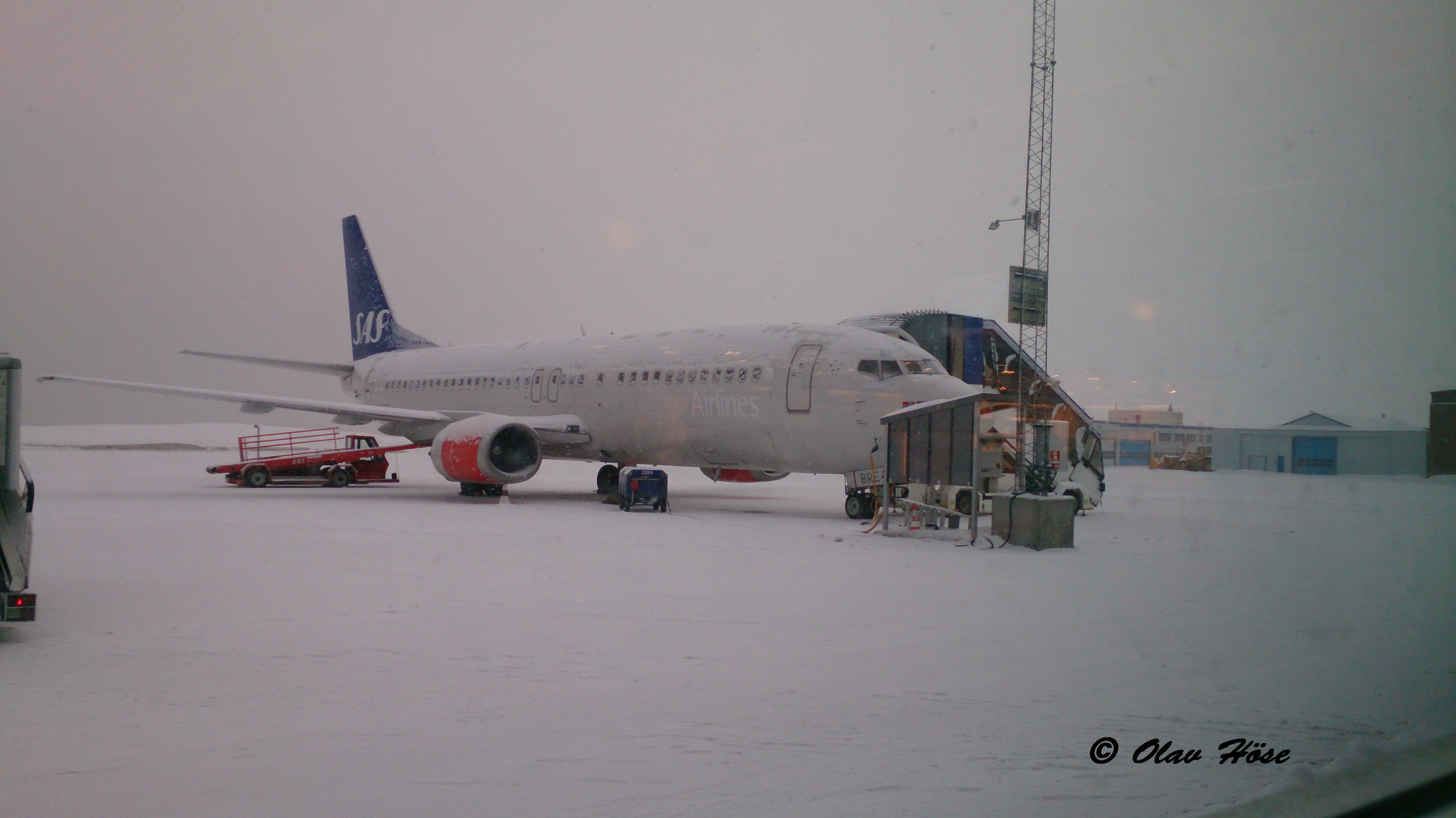 A SAS boeing 737 in Alta Airport April 2013